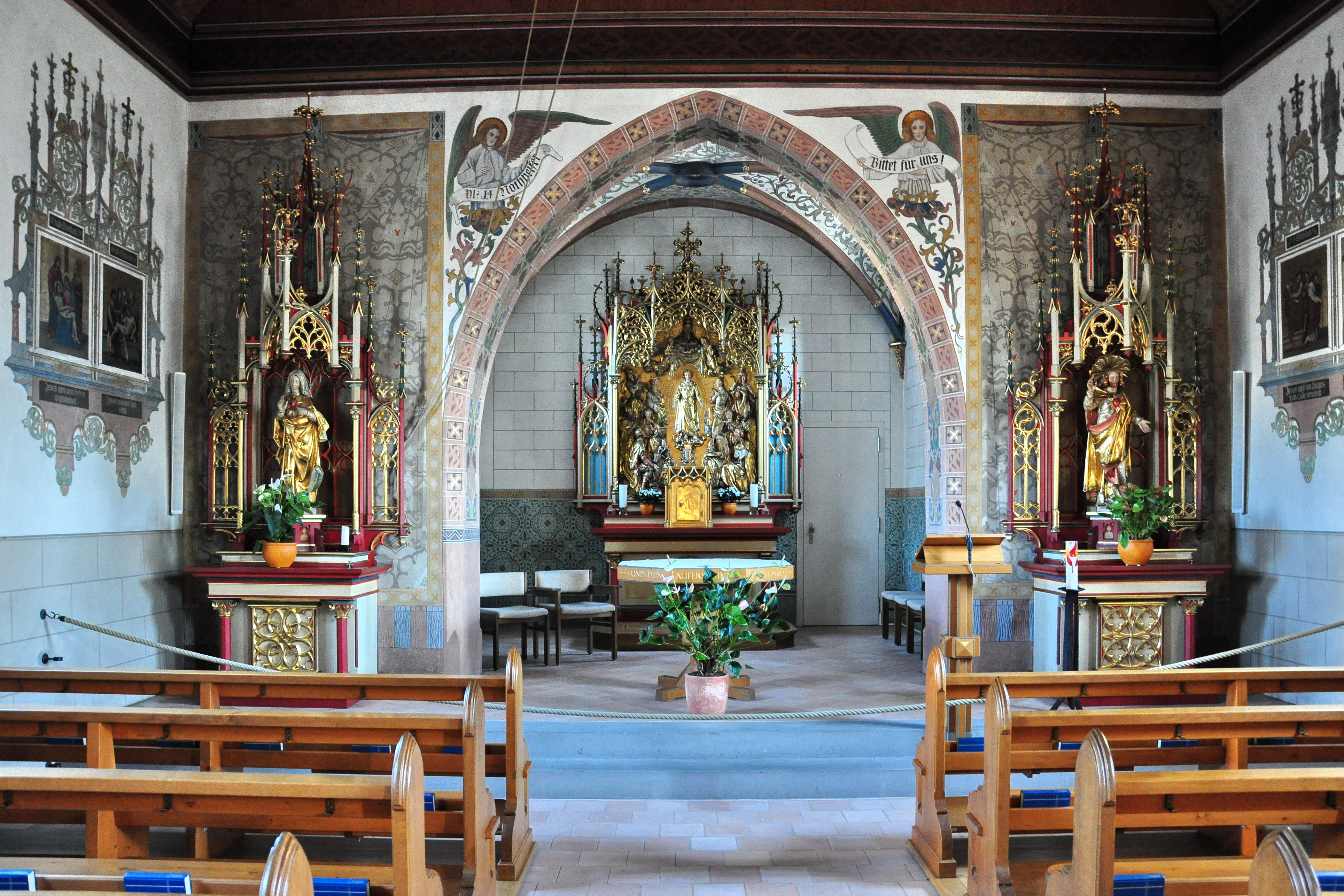 Kapelle St. Ursula in Kempraten respectively Rapperswil (Switzerland)